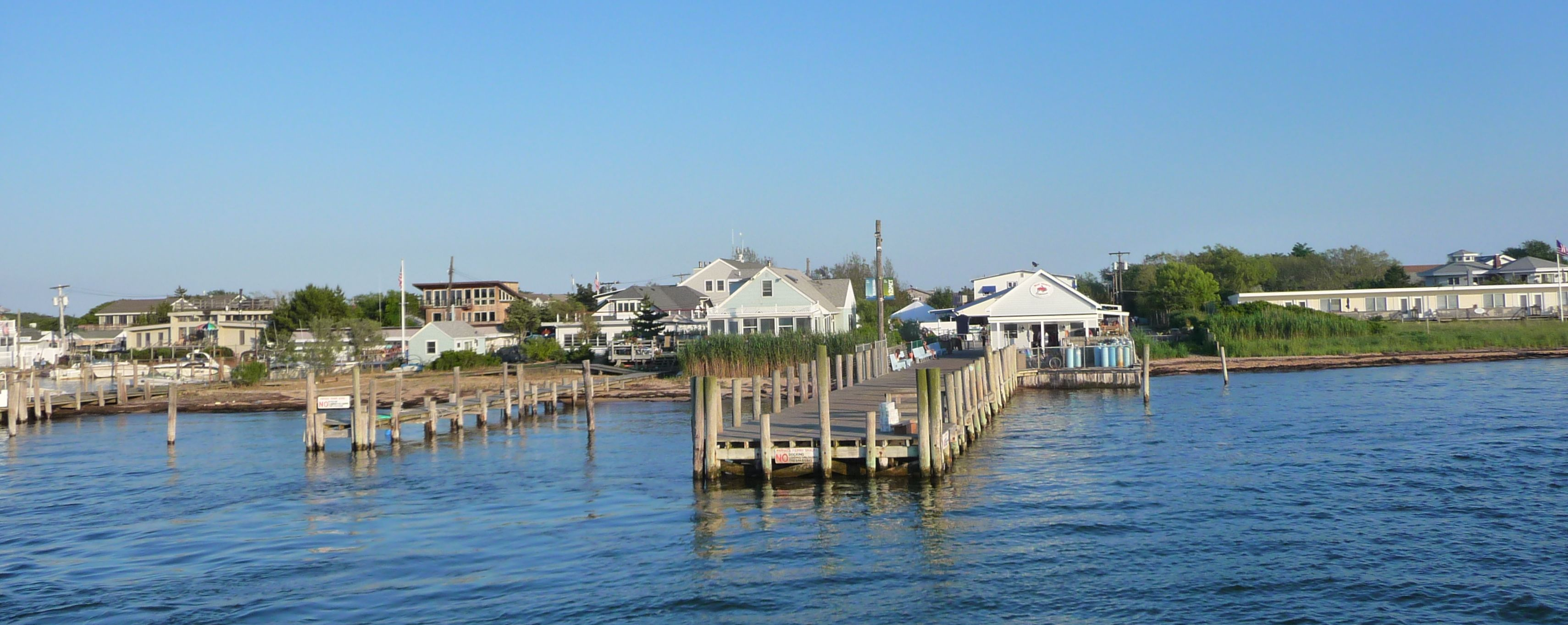 The town of Kismet on Fire Island is seen from the Fire Island Ferry on bay side of the island in the early evening during the summer. Taken by C. Spencer Beggs at 7:15 p.m. on July 6, 2009.